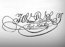 Lithograph image of James Oliver Van de Velde